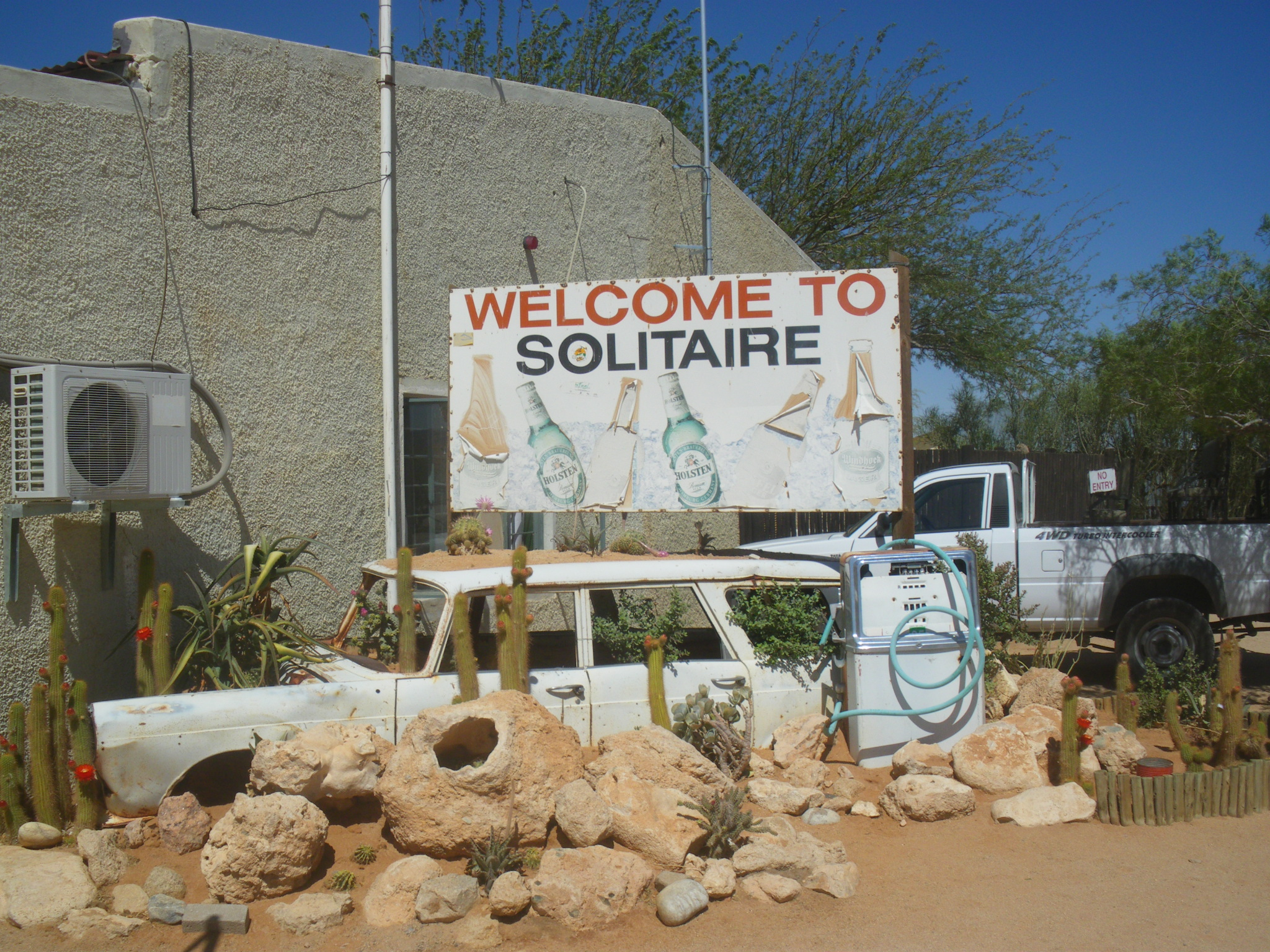 Solitaire, Namibia, town of Namibia.